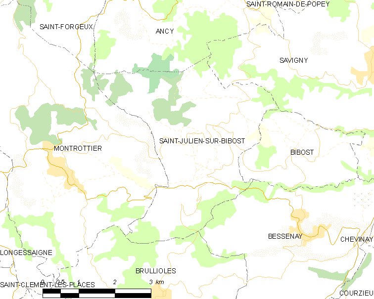 Map of French municipality